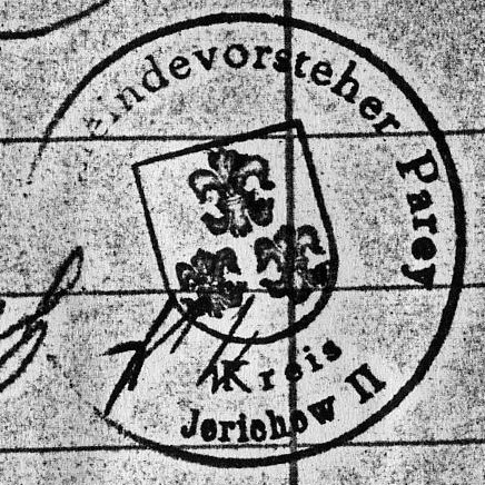 Seal of Parey (Elbe), Germany